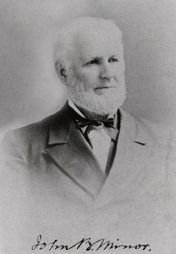 University of Virginia School of Law Faculty member John B. Minor. Original photograph is inscribed : "With great regard, I am, dear Mr. McGuire, your affectionate friend, John B. Minor. Oct. 1, 1884".